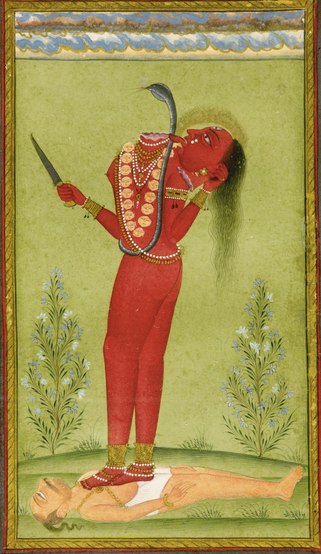 "The Goddess Chinnamasta, Pahari, Mankot, circa 1750"